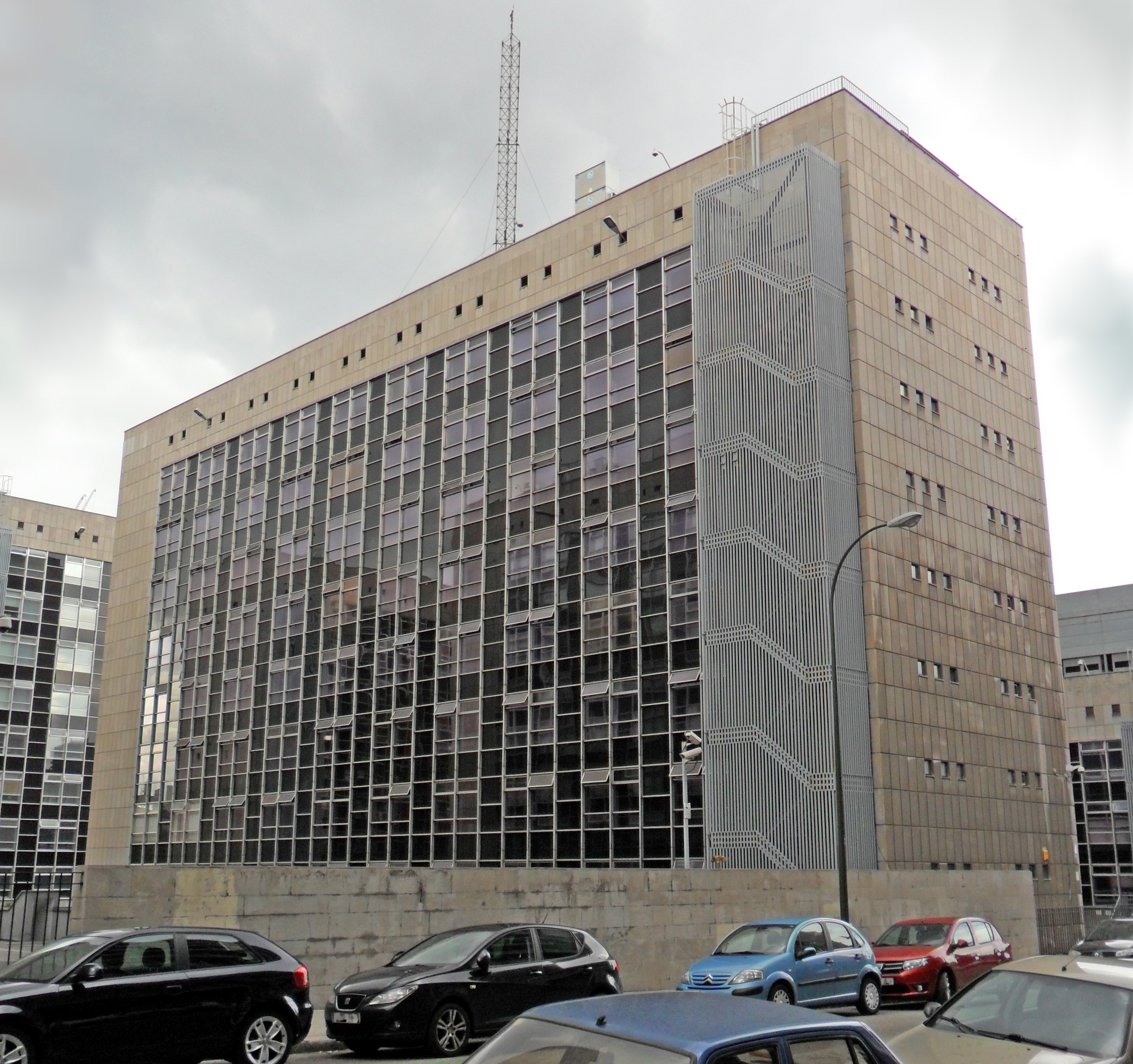 View of Navantia's head-offices, at 132 Calle de Velázquez (SEPI headquarters) in Madrid (Spain).